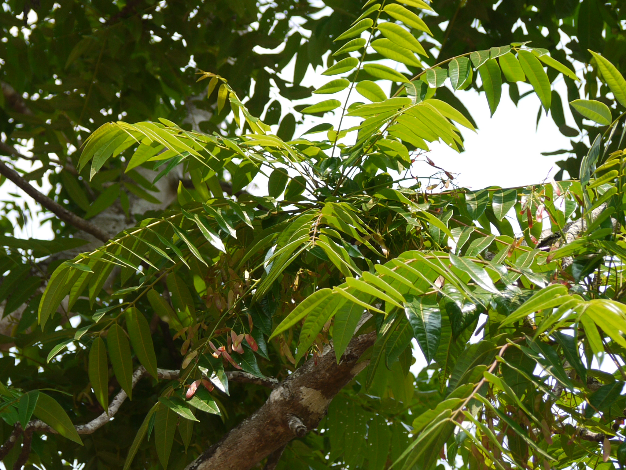 Ailanthus triphysa